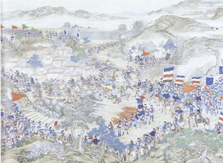 A scene of the Taiping Rebellion, 1850-1864